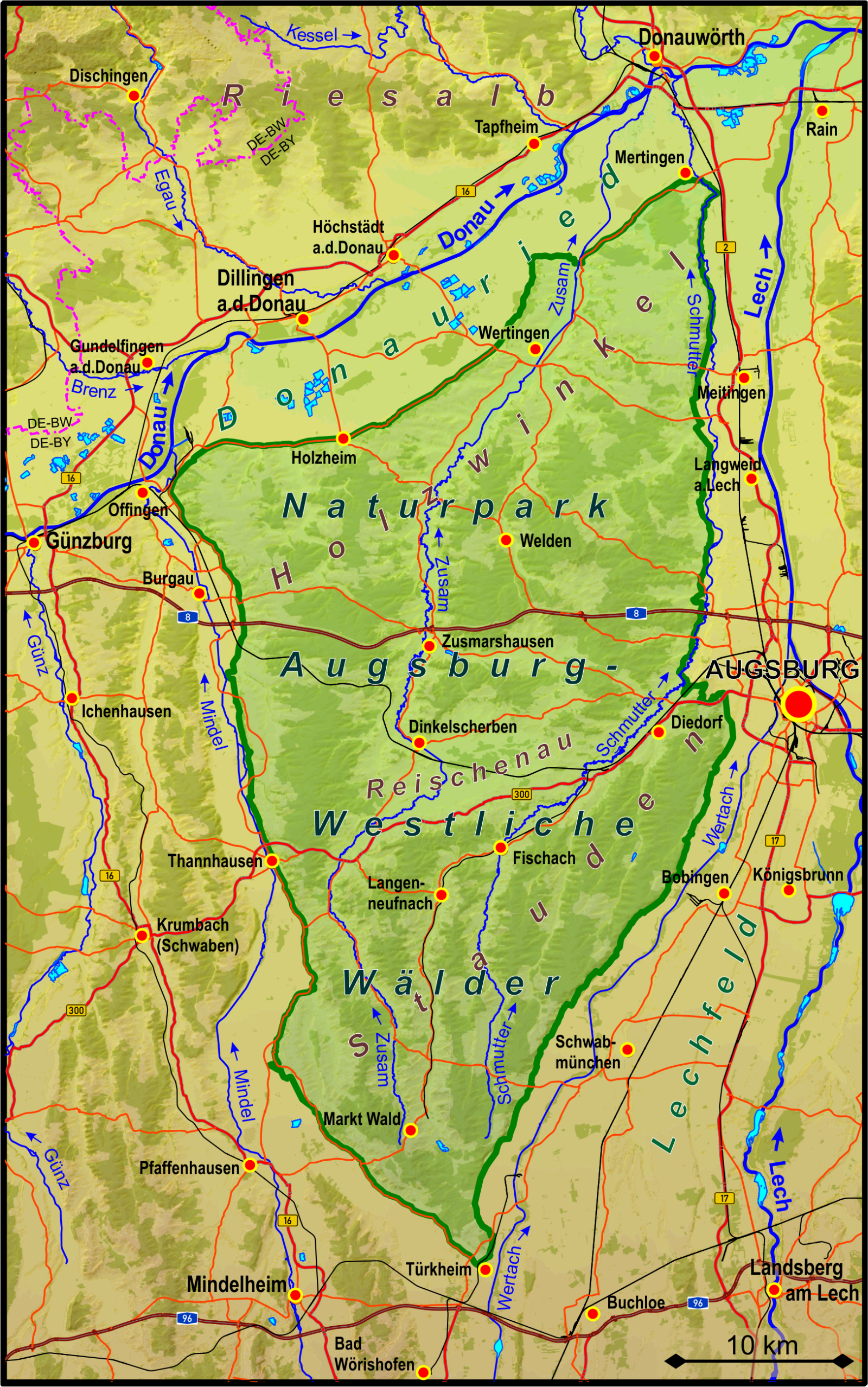 The figure shows the boundary of the natural park (green broken line), the terrain elevation (green-yellow-brown with shading) and forests (grey-green). For orientation railway lines, motorways und federal highways are drawn, as well as selected places and rivers.